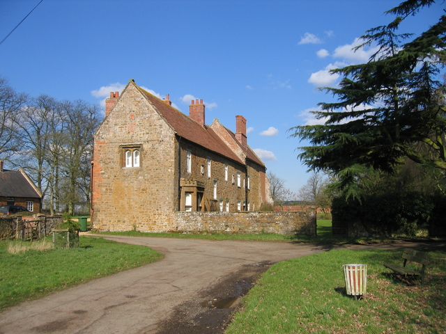 Wormleighton Manor House Looking east from the lane towards the church.